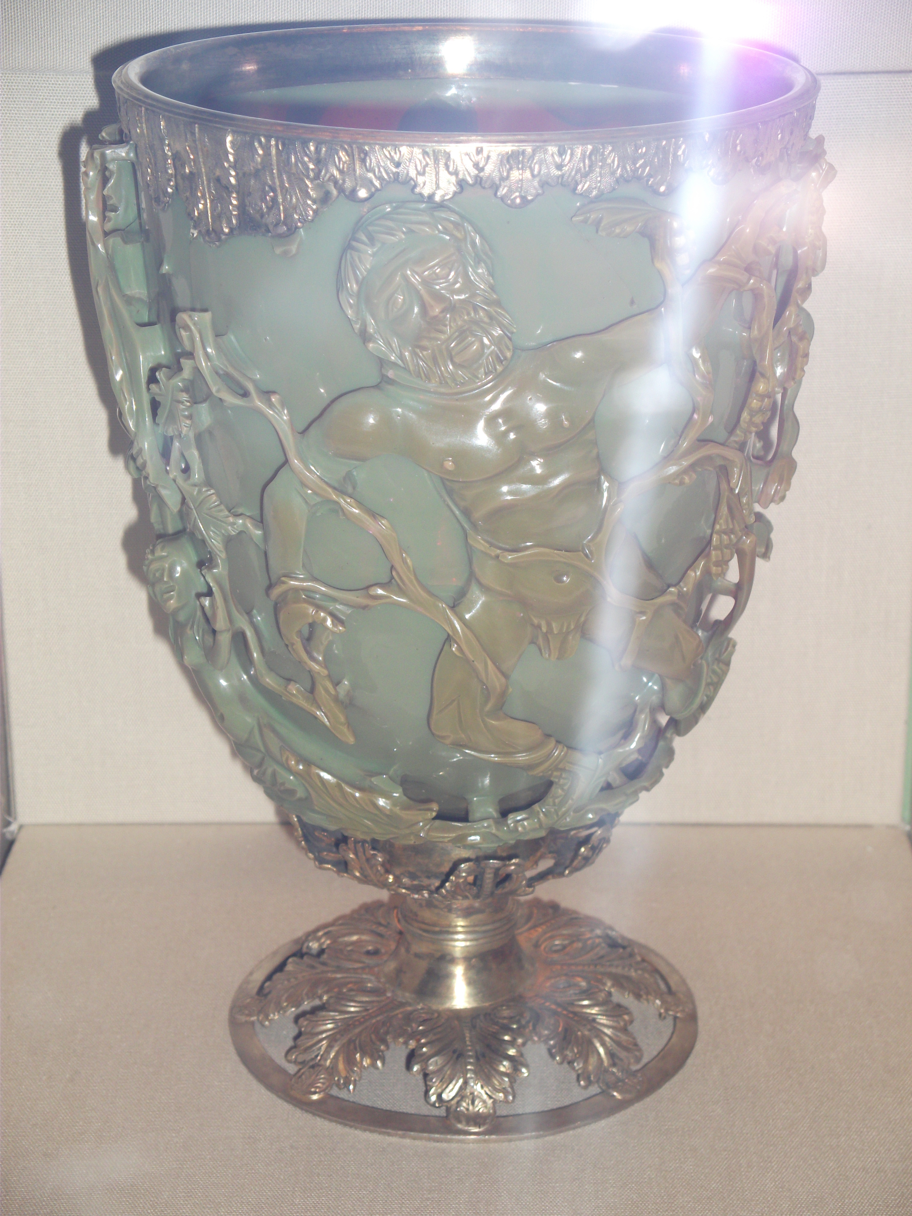 Lycurgus Cup, with flash